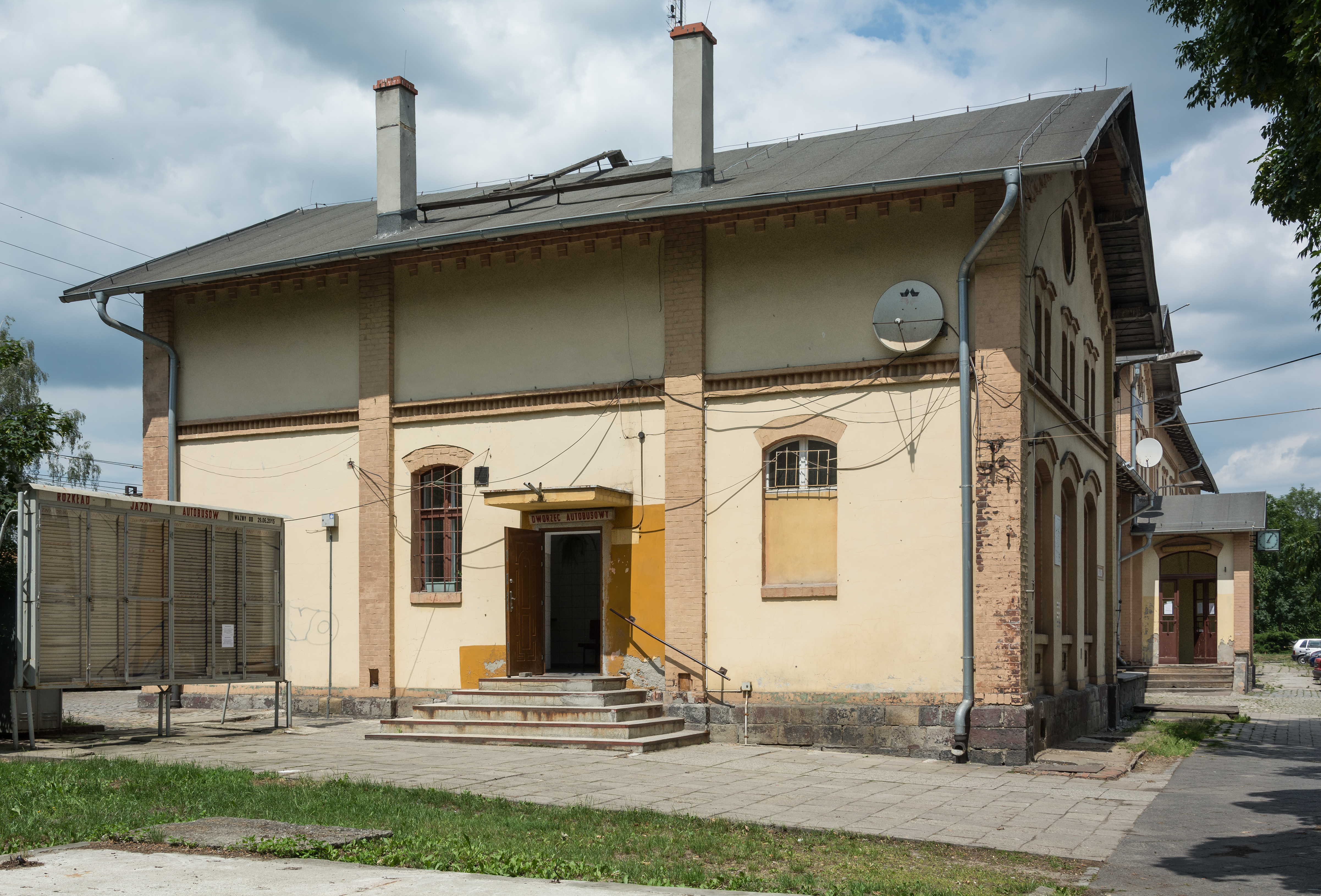 Train station in Strzelin, telegraph building